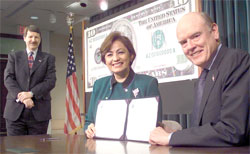 Secretary of the Treasury John Snow and US Treasurer Rosario Marin display their signatures to be transferred to BEP's steel engraving plates and used on new currency (with unnamed Treasury Dept. official standing in the background). March 5, 2003 press conference.